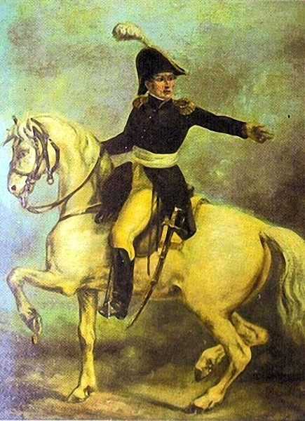 Equestrian portrait of Manuel Belgrano, painted in oil.